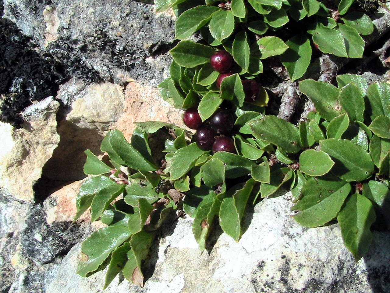 Rhamnus pumila. In Castellar del Riu (Berguedà-Catalunya). To 1.775 m. altitude